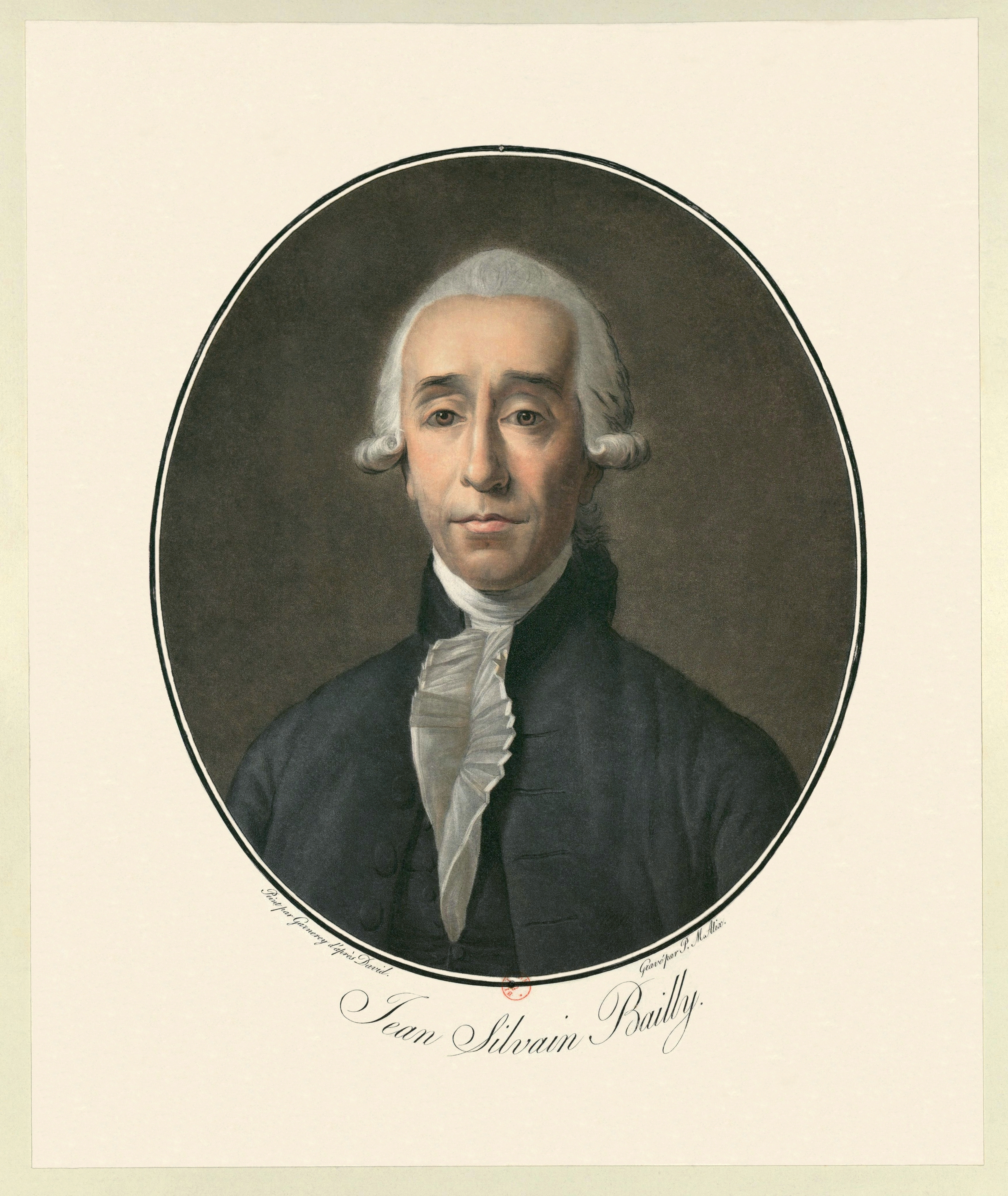 Jean Sylvain Bailly (1736-1793) French astronomer, mathematician, freemason and political leader of the early part of the French Revolution. He presided over the Tennis Court Oath, and served as the first mayor of Paris.